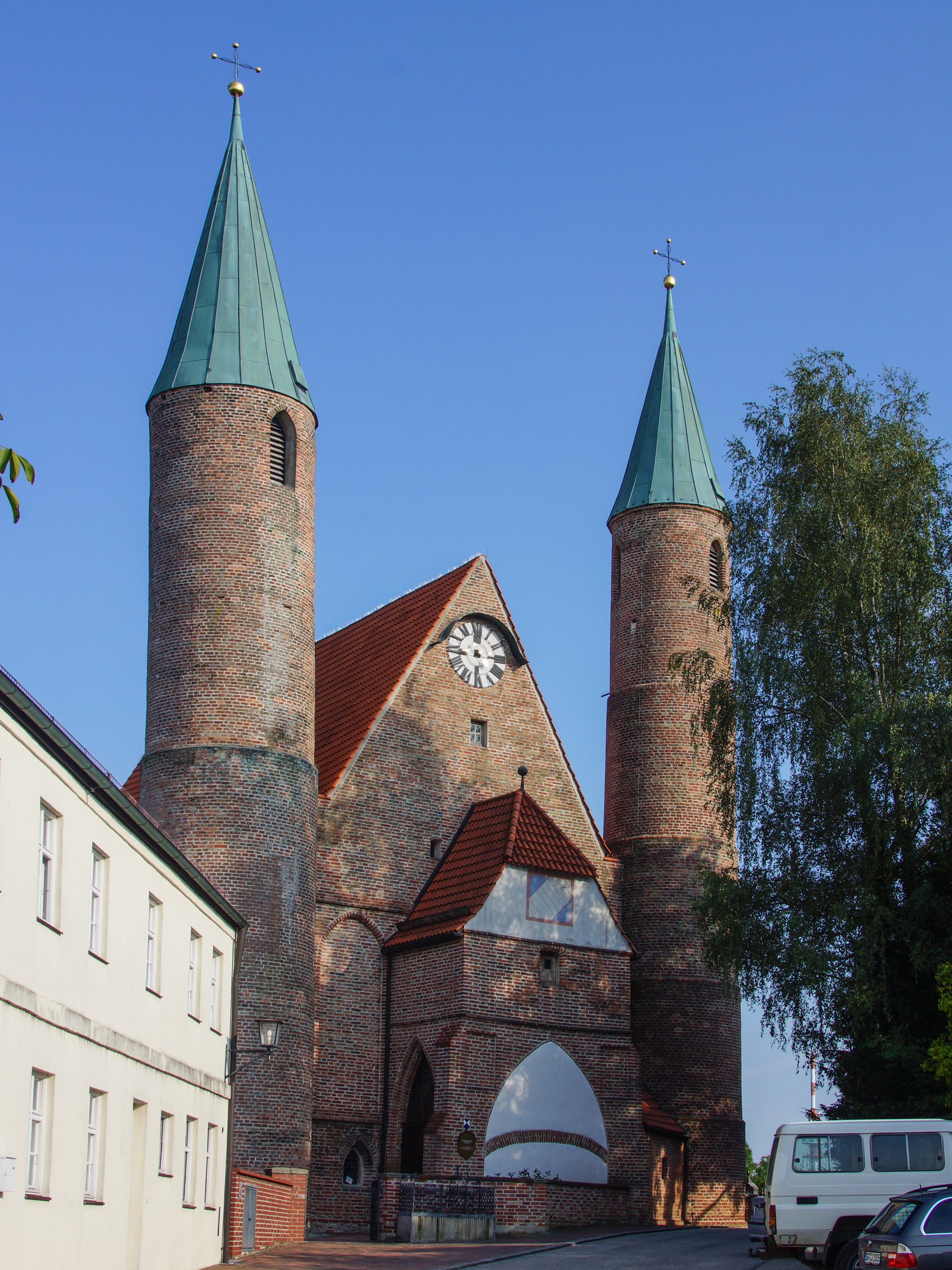 This is a photograph of an architectural monument.